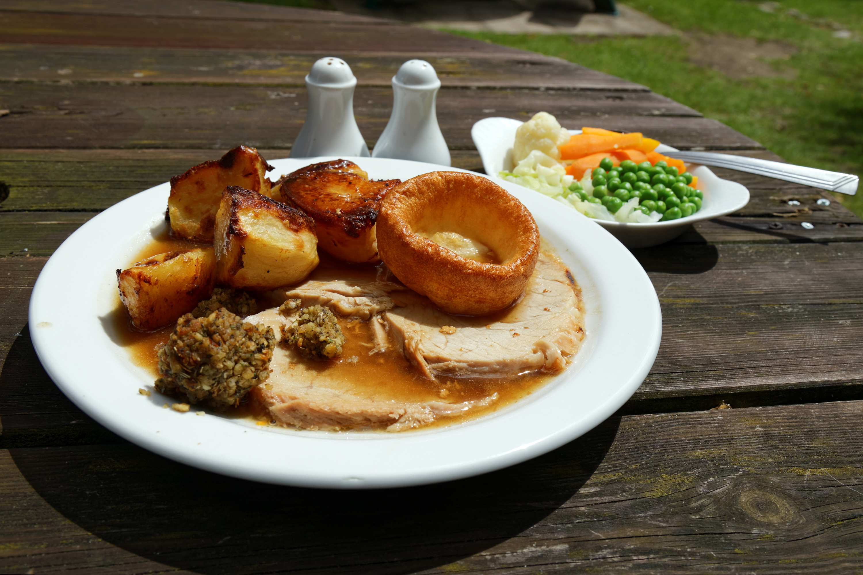 A roast pork Sunday Lunch with roast potatoes, peas, carrots, cauliflower and Yorkshire pudding with stuffing and gravy, in The Crown public house garden at Newgate Street Village (name of road), at Newgate Street, in the civil parish of Hatfield, and the Borough of Welwyn Hatfield, Hertfordshire, England.Camera: Camera: Canon EOS 6D with Canon EF 24-105mm F4L IS USM lens.Software: file lens-corrected and optimized with DxO OpticsPro 10 Elite and Viewpoint 2, and further optimized with Adobe Photoshop CS2.